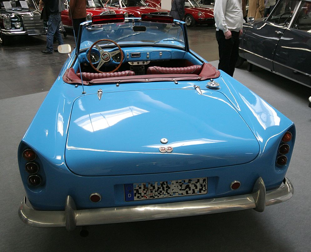 Panhard DB Le Mans - 2 cyl - 850 ccm - 60 PS - 1960